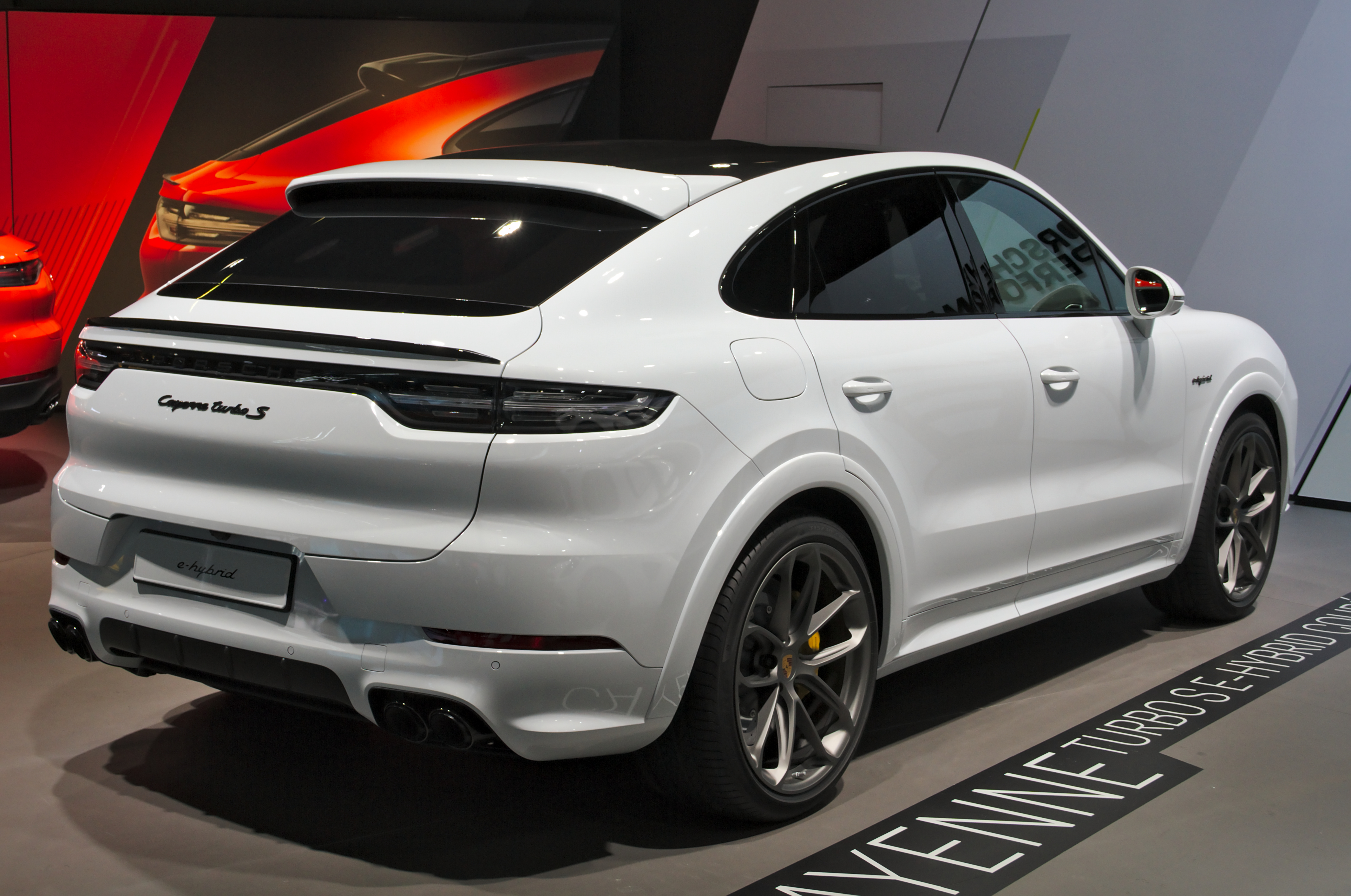 Porsche Cayenne Coupé Turbo S E-Hybrid at IAA 2019